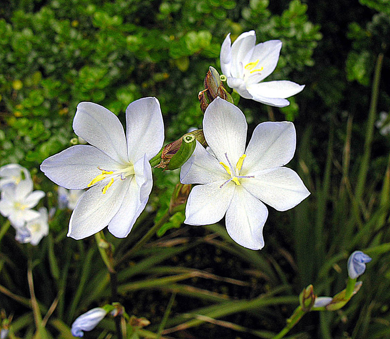 This species graces the highlands from Mexico to Bolivia. It is white at dawn and turns blue during the day. Univ. of BC Gardens. In context at